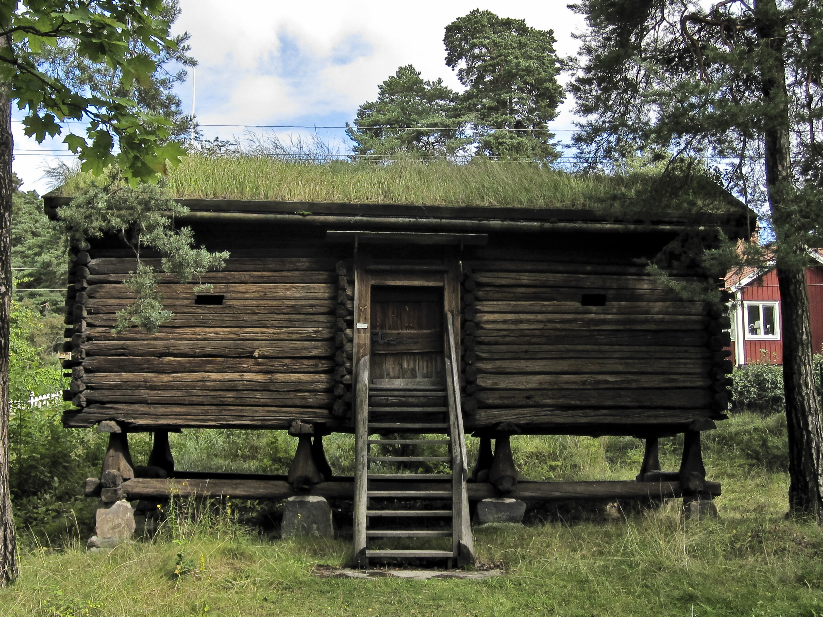 Sågudden open air museum, Arvika, Sweden. Stolpbod, 1700-talet.